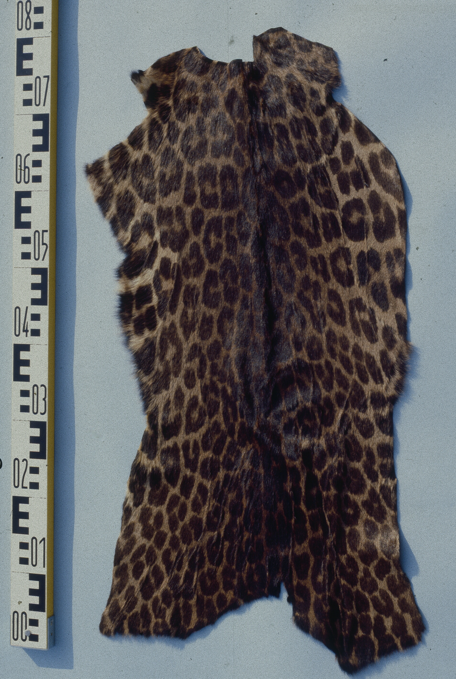 Puma skin, stanciled (Felis concolor). Fur skin collection, Bundes-Pelzfachschule, Frankfurt/Main, Germany